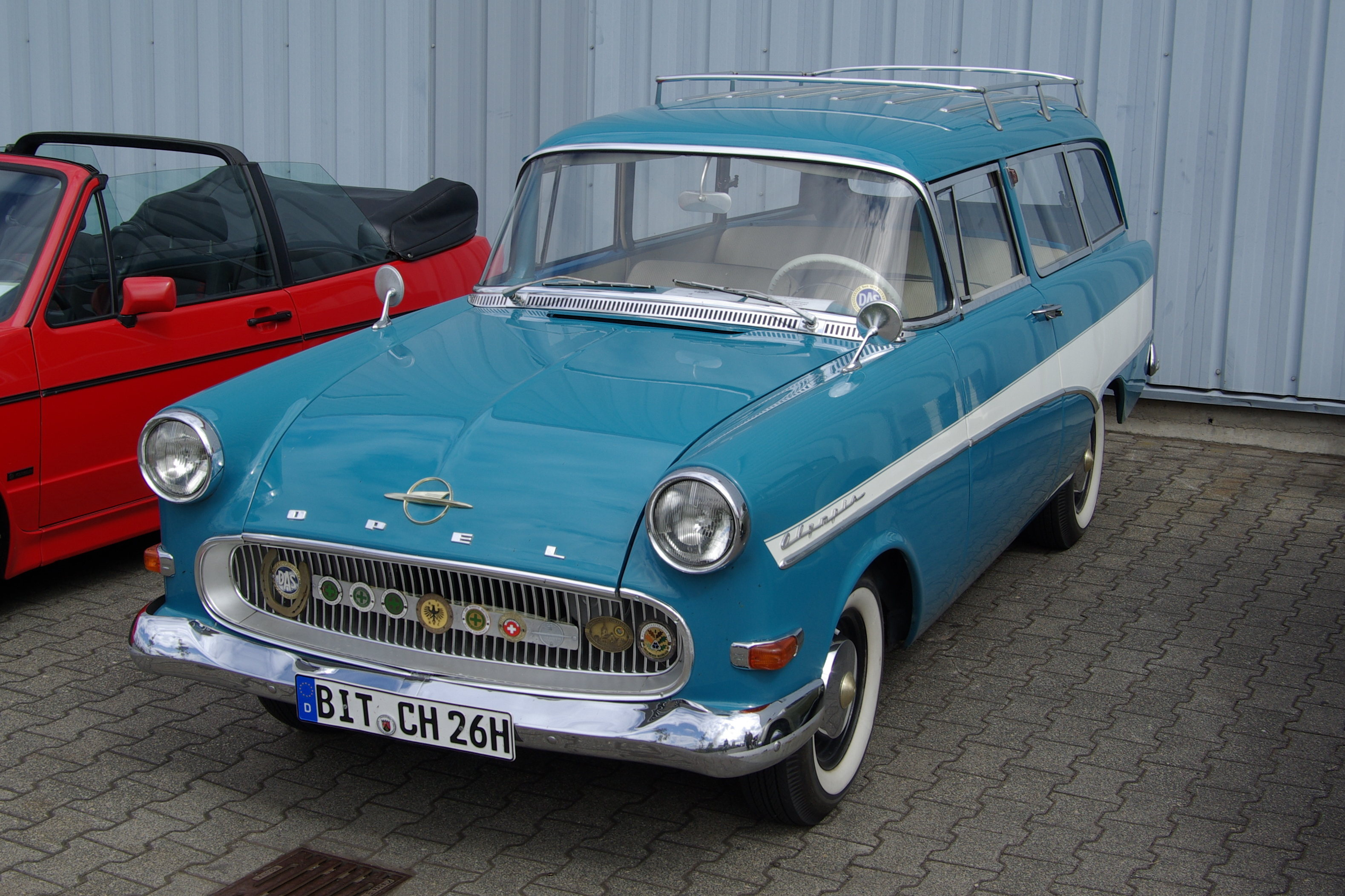 Opel Olympia Rekord P1 Kombi, Baujahr 1960, 1500 cm³, 4 Zyl., 45 PS, Original Zustand, Bitburg Classic 2012